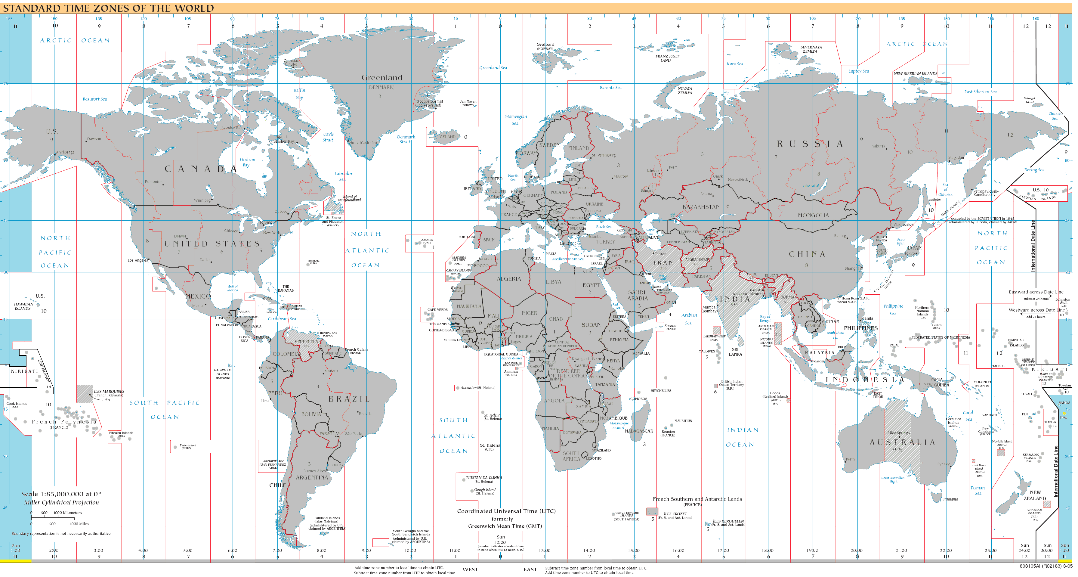 World map of time zones as of 2008, on the Miller Cylindrical Projection and with highlighted UTC-11 zone. Dark Blue - UTC-11 during Northern Winter / Southern Summer Orange - UTC-11 during Northern Summer / Southern Winter Yellow - UTC-11 all year round Light Blue - UTC-11 sea areas